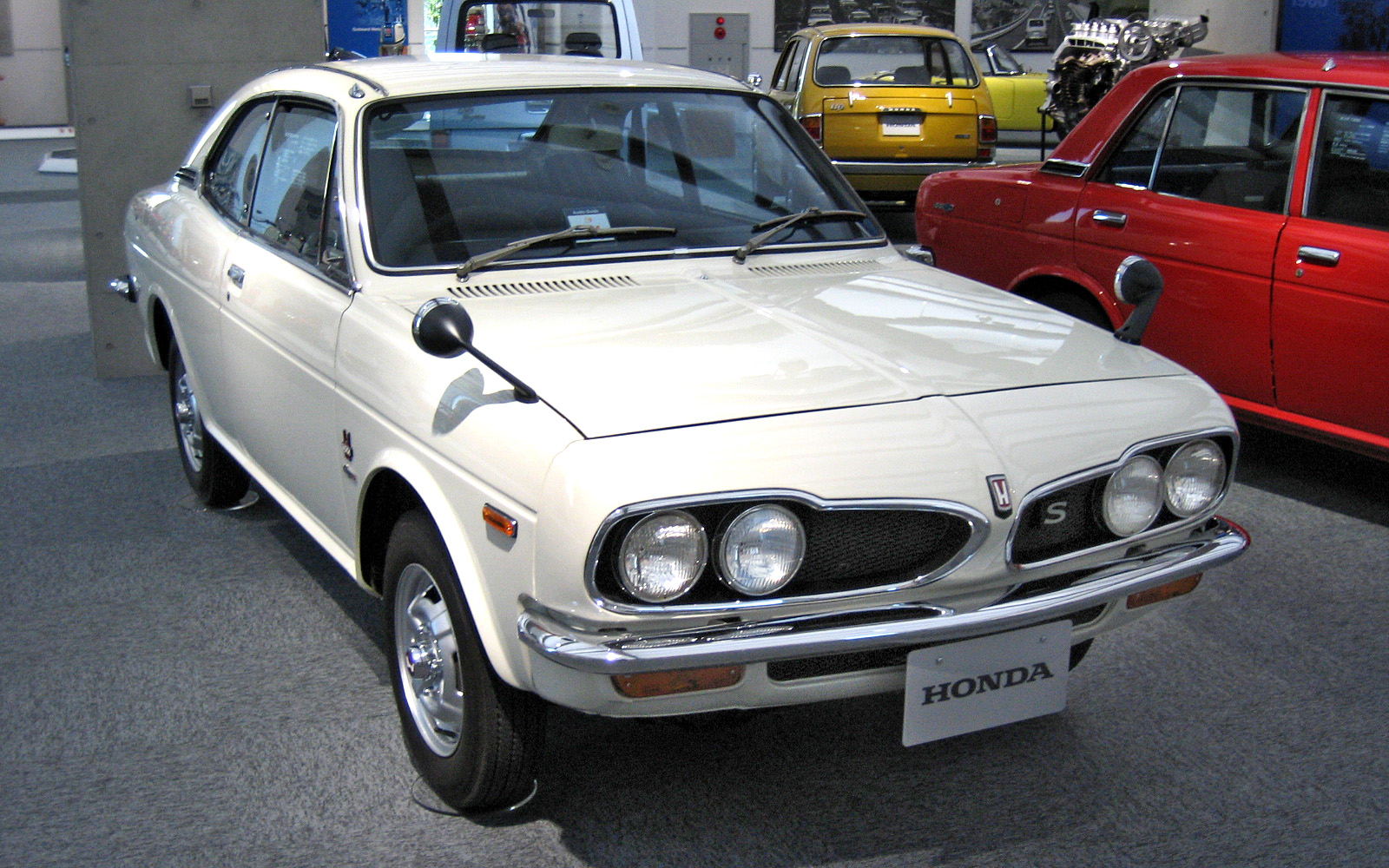 I photoed Honda 1300 coupe in the Honda collection hole.